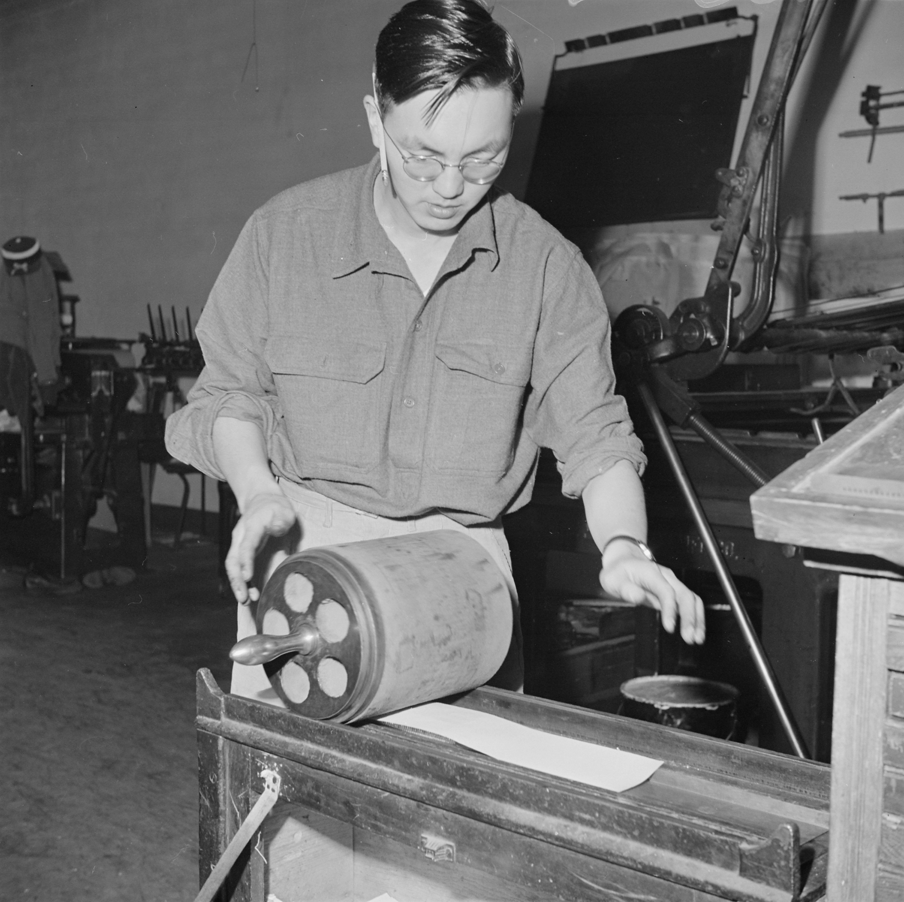 Scope and content: The full caption for this photograph reads: Heart Mountain Relocation Center, Heart Mountain, Wyoming. In the press room of the Cody Enterprise, Bill Hosokawa, Editor of the Sentinel, Heart Mountain Relocation newspaper, pulls a galley proof. Aside from being editor of the paper, Bill, on press night, sets type, prepares makeup, locks forms, and performs all the tasks pertinent to putting his paper to press. Leave regulations do not permit more than one member of the newspaper staff to leave the center and assist in putting the paper to bed.